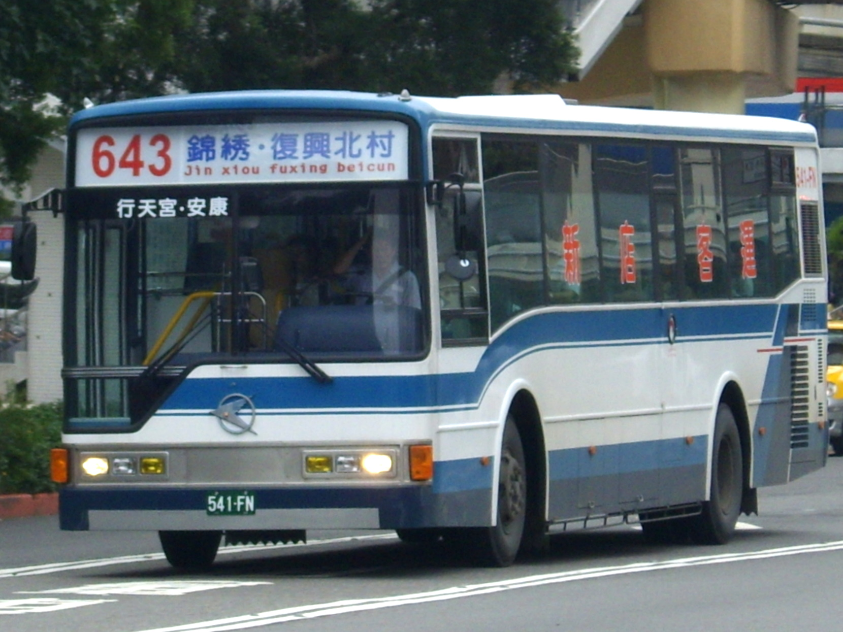 A brand new EU 4th issue chassis bus on the road.